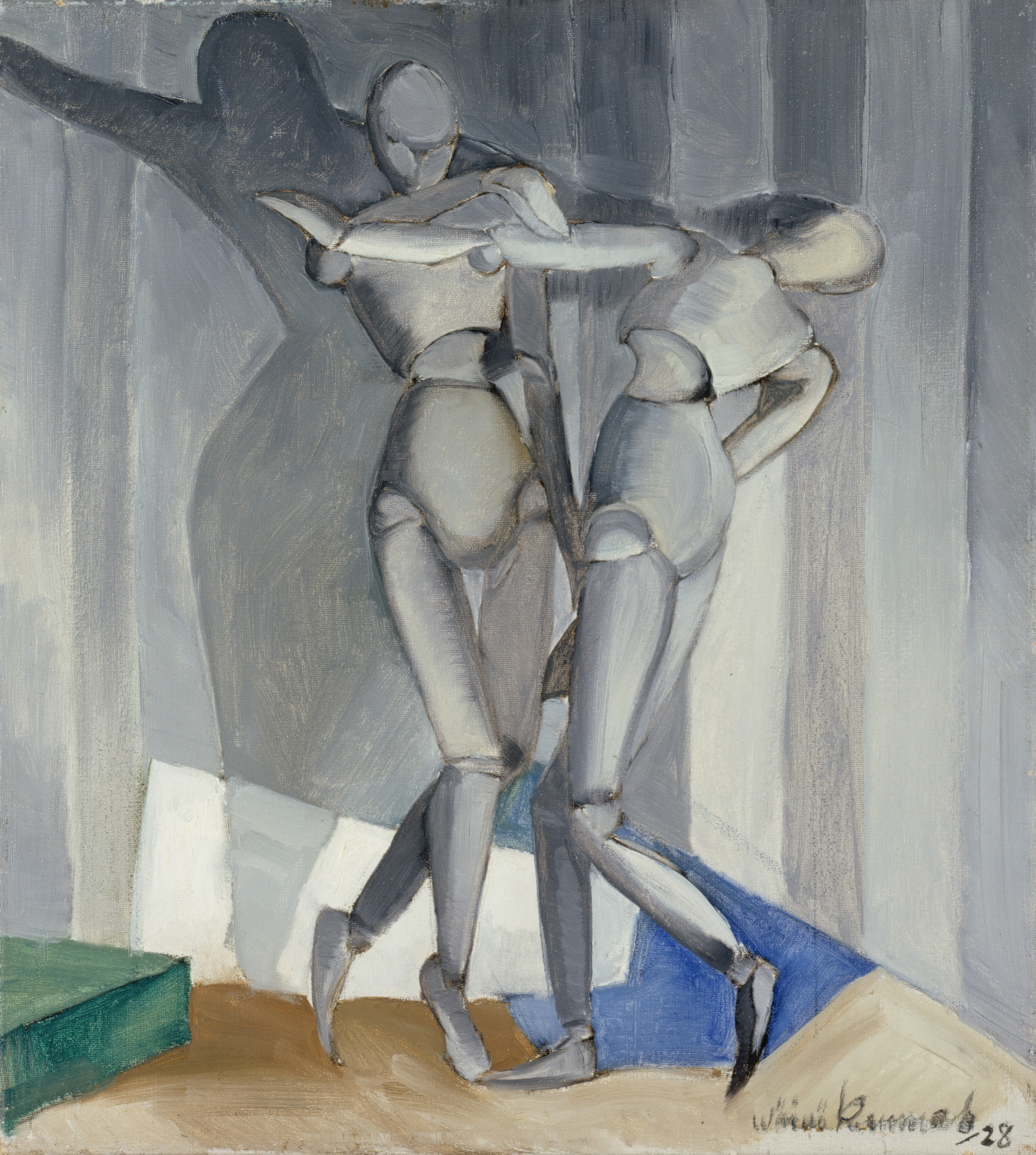 Still life with two dummies in a dancing position.